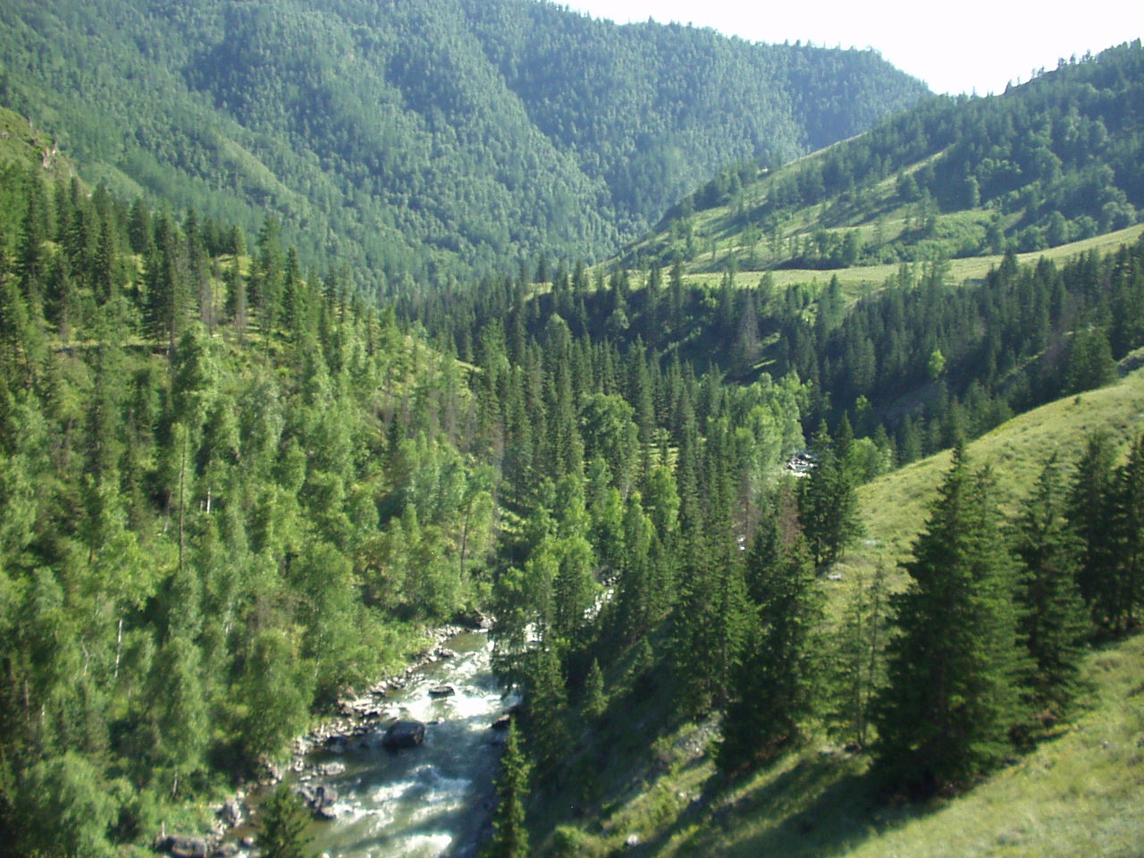 Altay Republic, Ongudaisky District, Ursul river valley